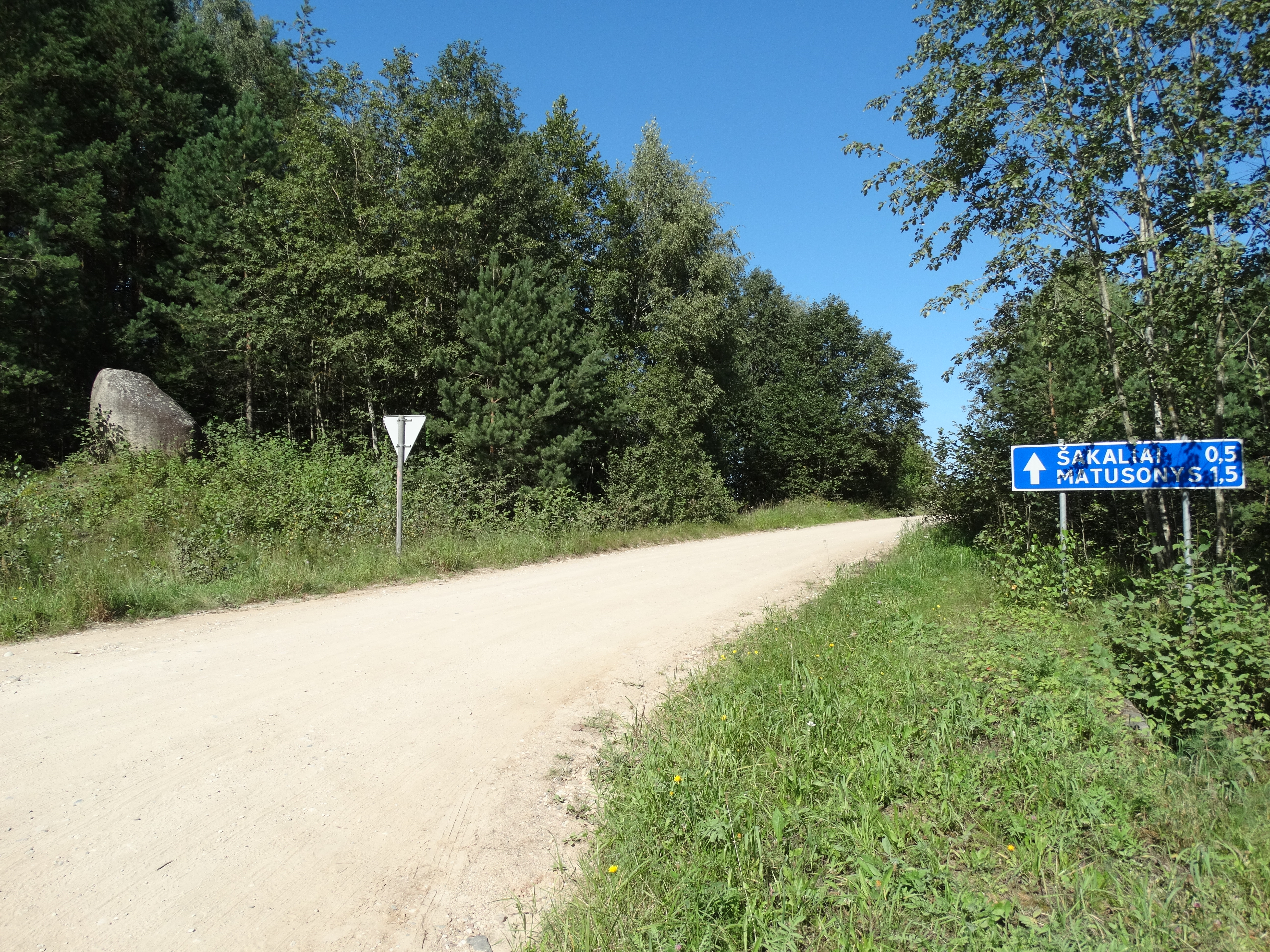 Šakaliai, Švenčionys District, Lithuania